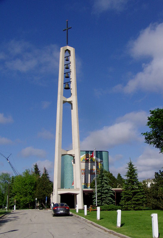 Entrance, University of Manitoba